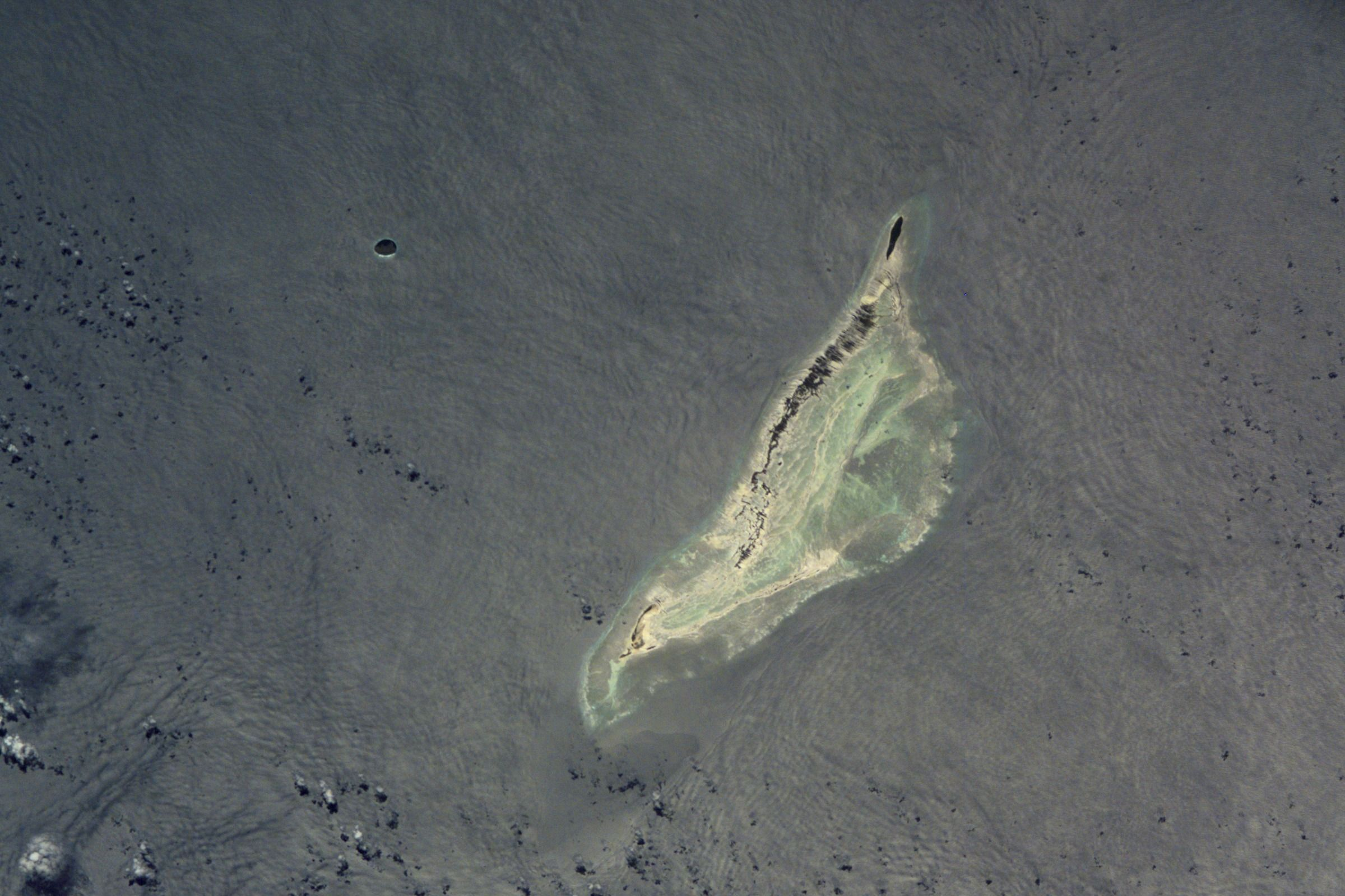 NASA astronaut image of Providence Atoll (Seychelles) in the Indian Ocean